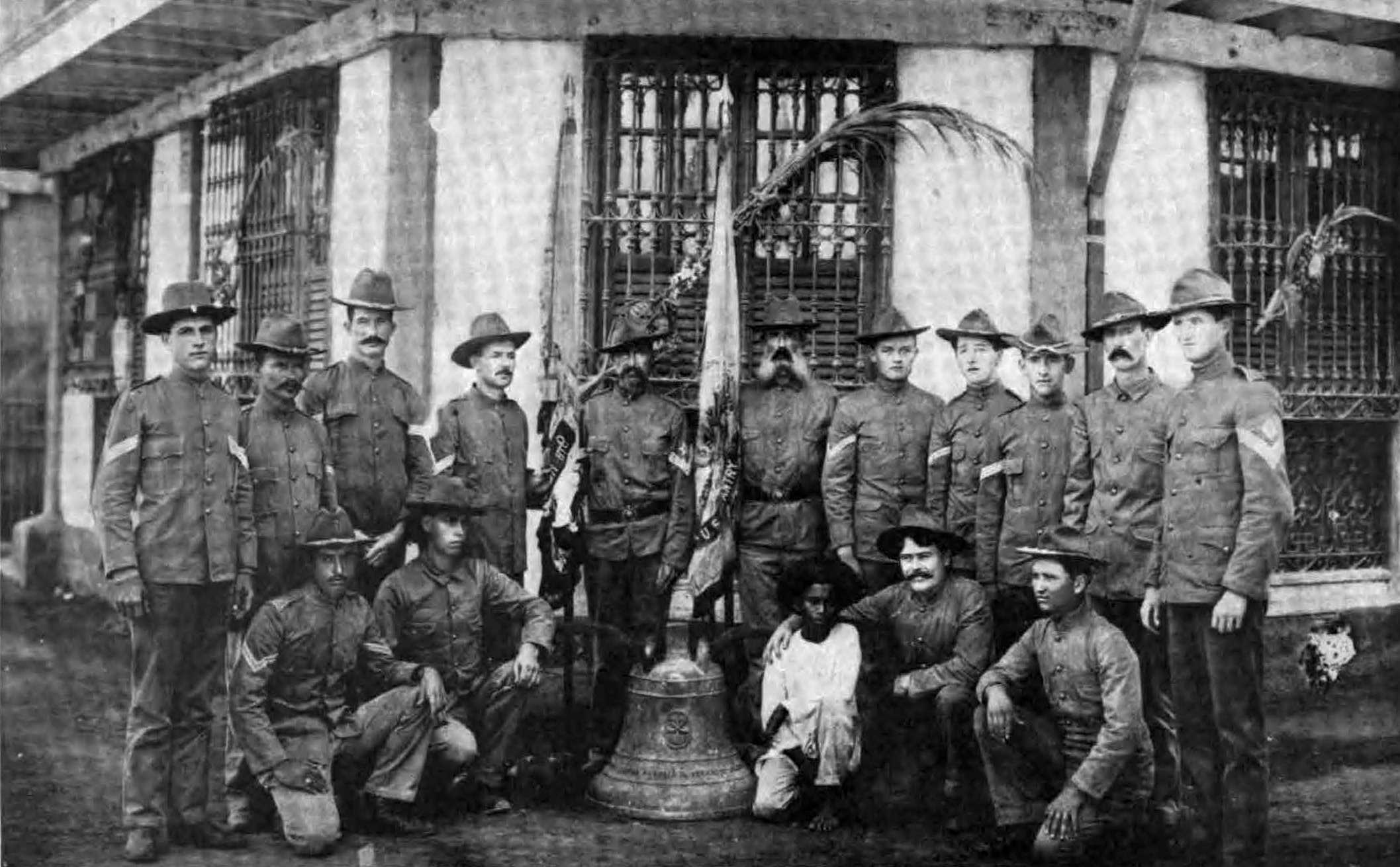 U.S. soldiers of Company C, 9th Infantry Regiment who survived a Filipino ambush in 1901 pose with a church bell used to signal the attack. The young boy, named Francesco, accompanied the men back to New York.[1]